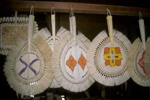 Marshallese fans made of rito, or bleached coconut fiber (Cocos nucifera). Majuro Atoll, Marshall Islands.